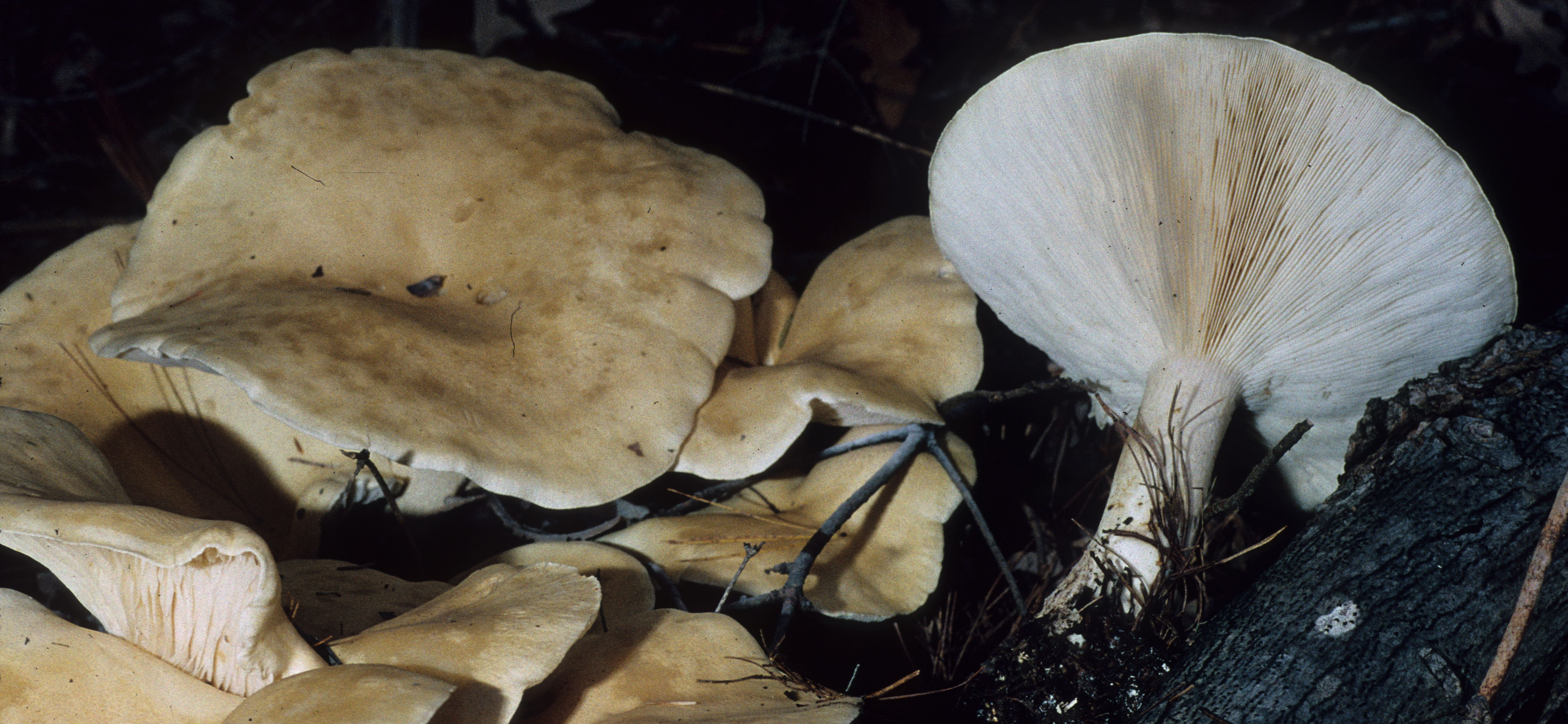 The mushroom Leucopaxillus giganteus (Sowerby) Singer. Photographed in Bonnechere Provincial Park, Ontario Canada. Notes: "These were huge. In mixed woods."